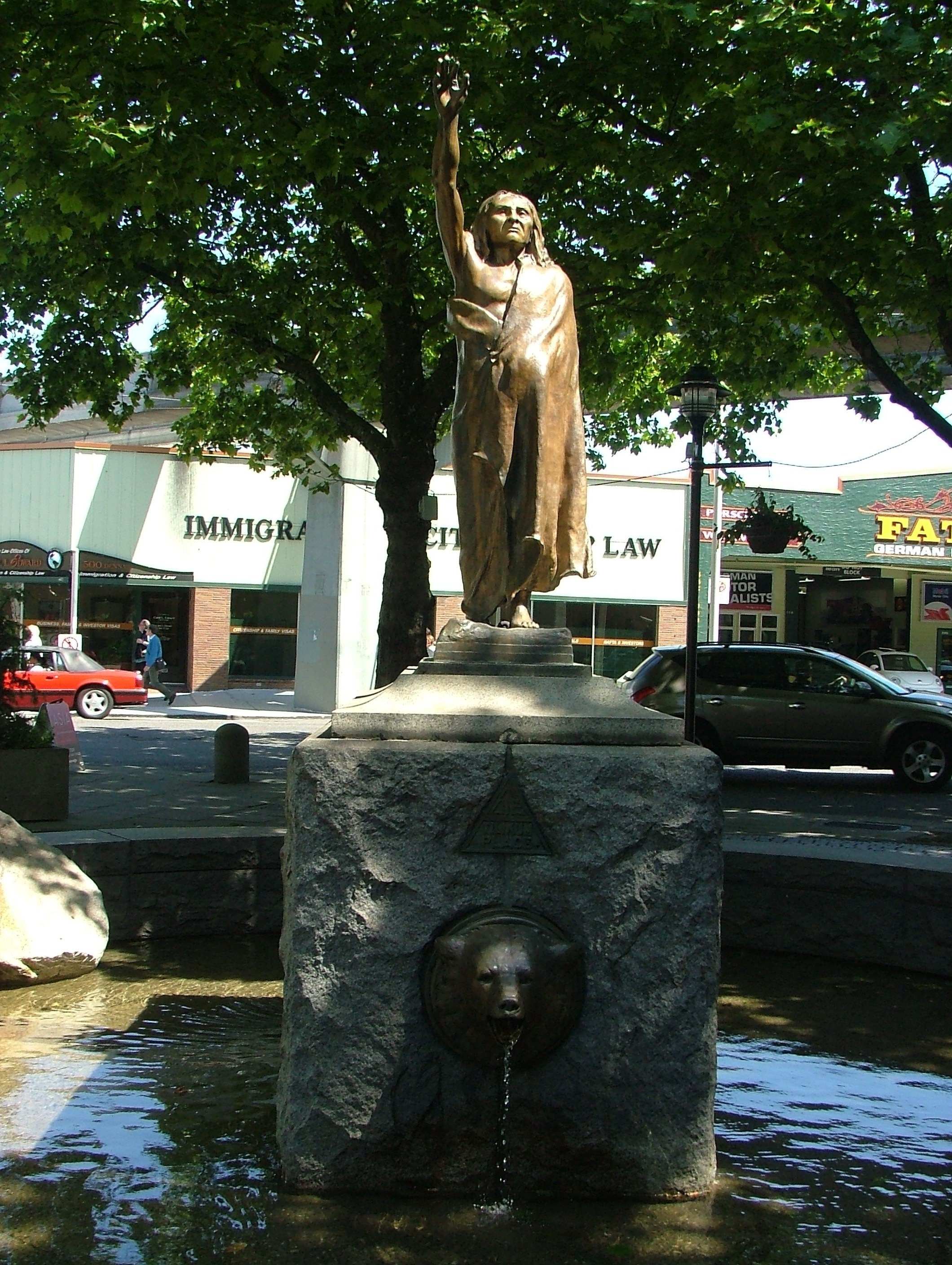 Bronze statue of Chief Noah Sealth ("Chief Seattle"), Chief of the Suquamish, Five Points / Tilikum Place (where Denny Way meets Fifth Avenue, roughly the border between Belltown and South Lake Union), Seattle, Washington. Sculpted by local sculptor James Wehn, unveiled November 13, 1912. On the National Register of Historic Places, ID #84003502.